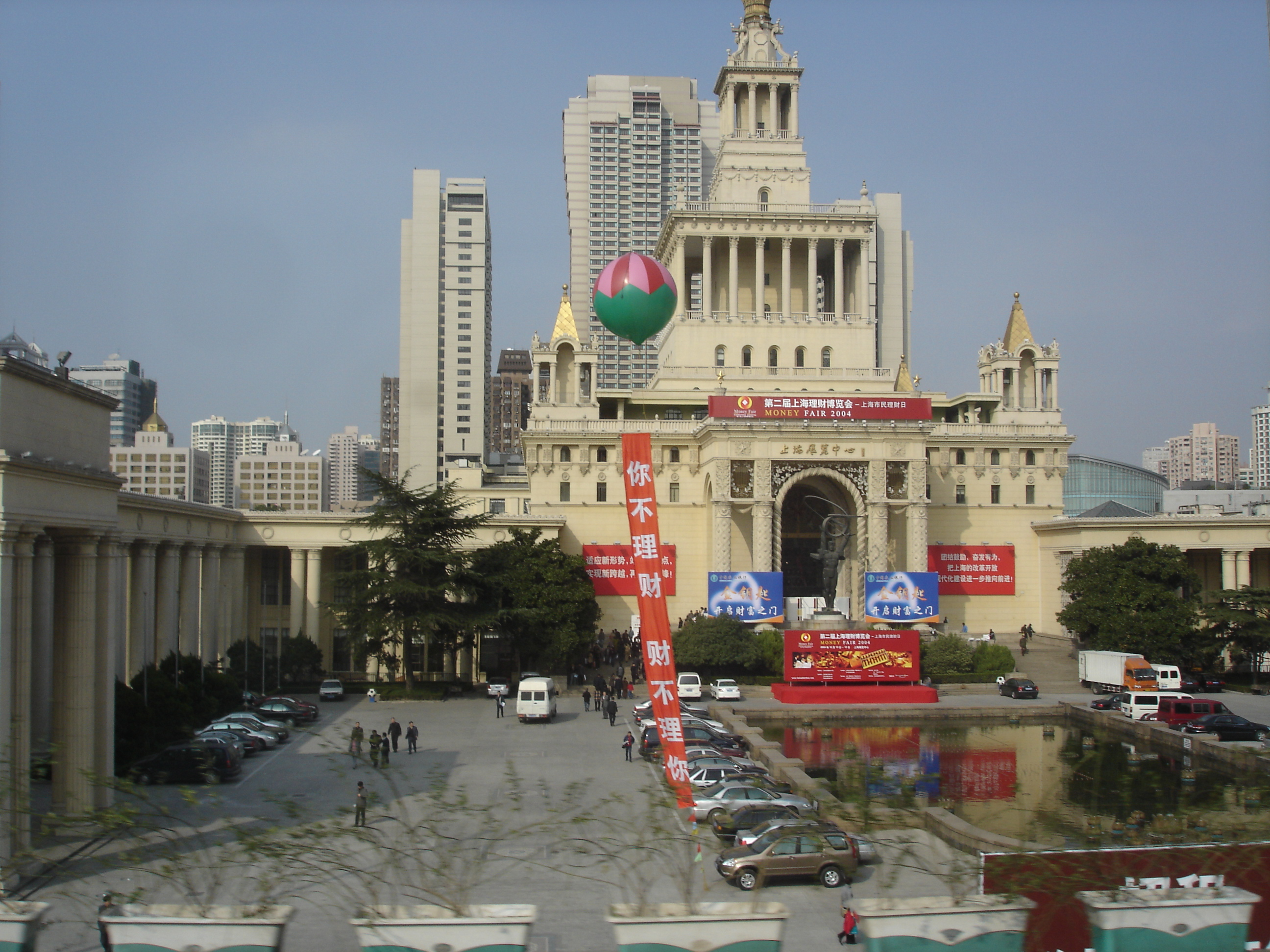 Shanghai Exhibition Center